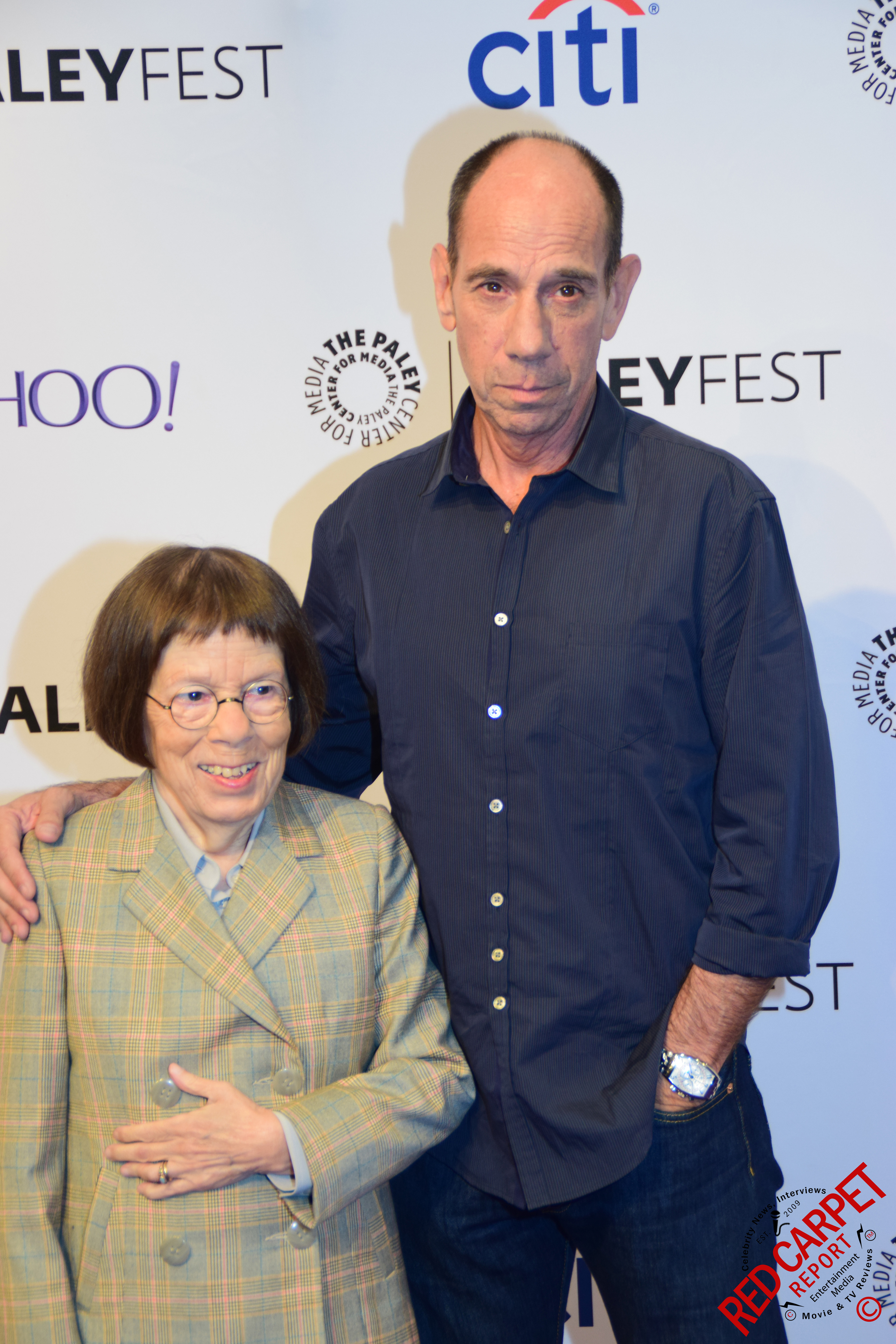 Linda Hunt & Miguel Ferrer at the NCIS LA Season 7 Premiere as part of Paleyfest Previews - DSC_0379